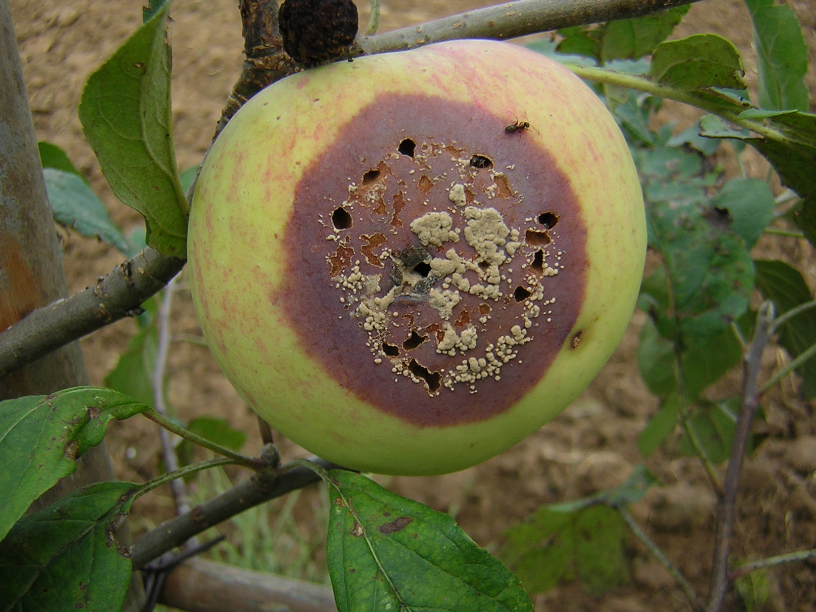 Apple with Monilia and ants.